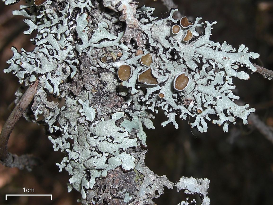 Hypogymnia occidentalis L. Pike 20090729.5 Battle Mountain, Wells Gray Park, BC